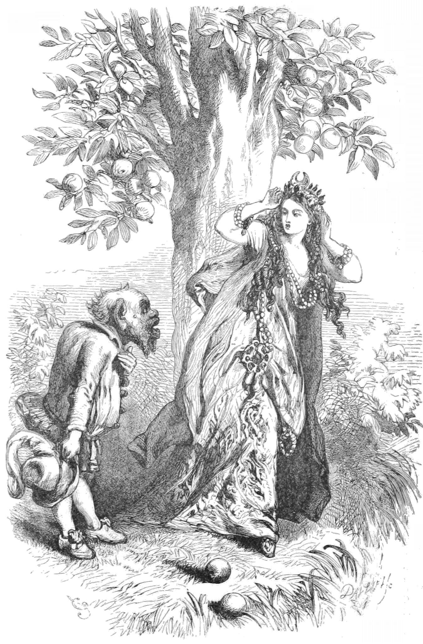 Illustration for a fairy tale by Madame d'Aulnoy